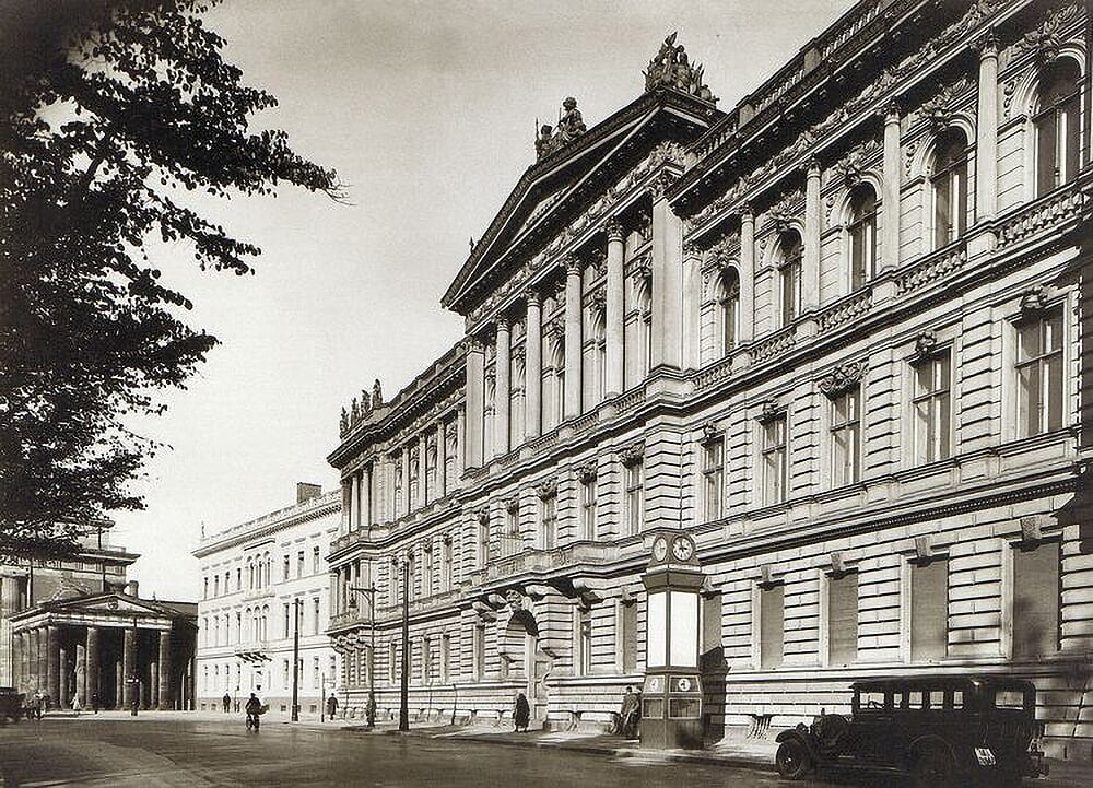 Former US Embassy in Berlin: Palais Blücher. Ca. 1929